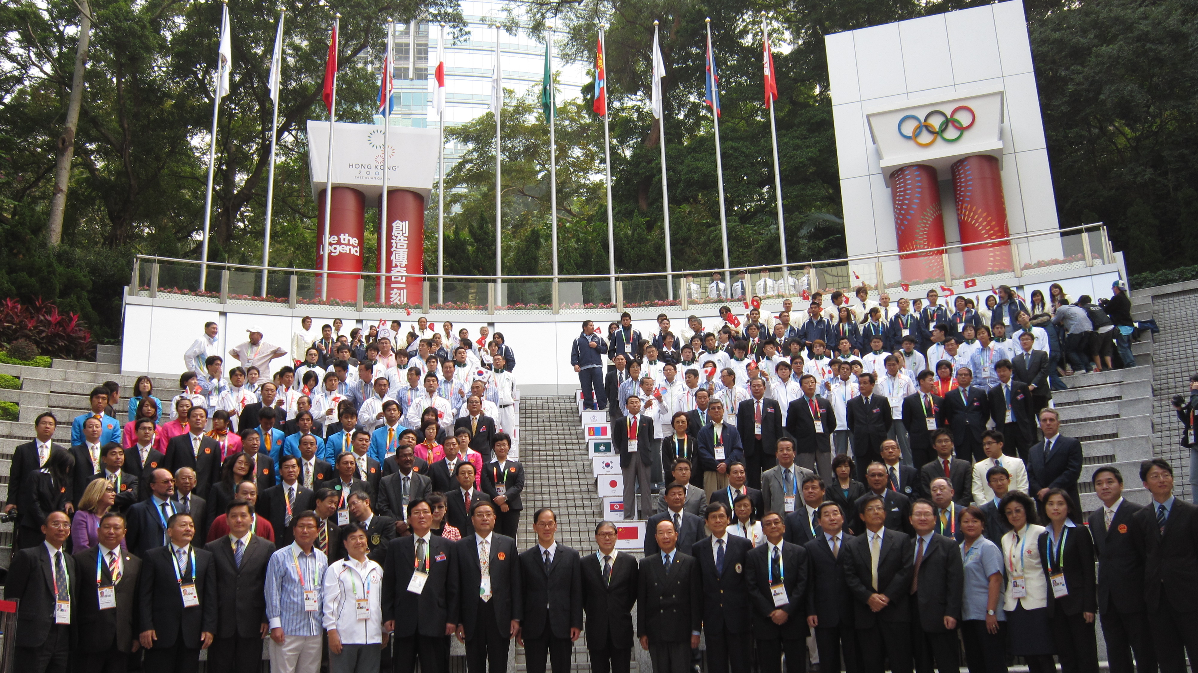 group photo for VIPs and athletes representatives of 9 NOCs after the flag raising ceremony of HKEAG